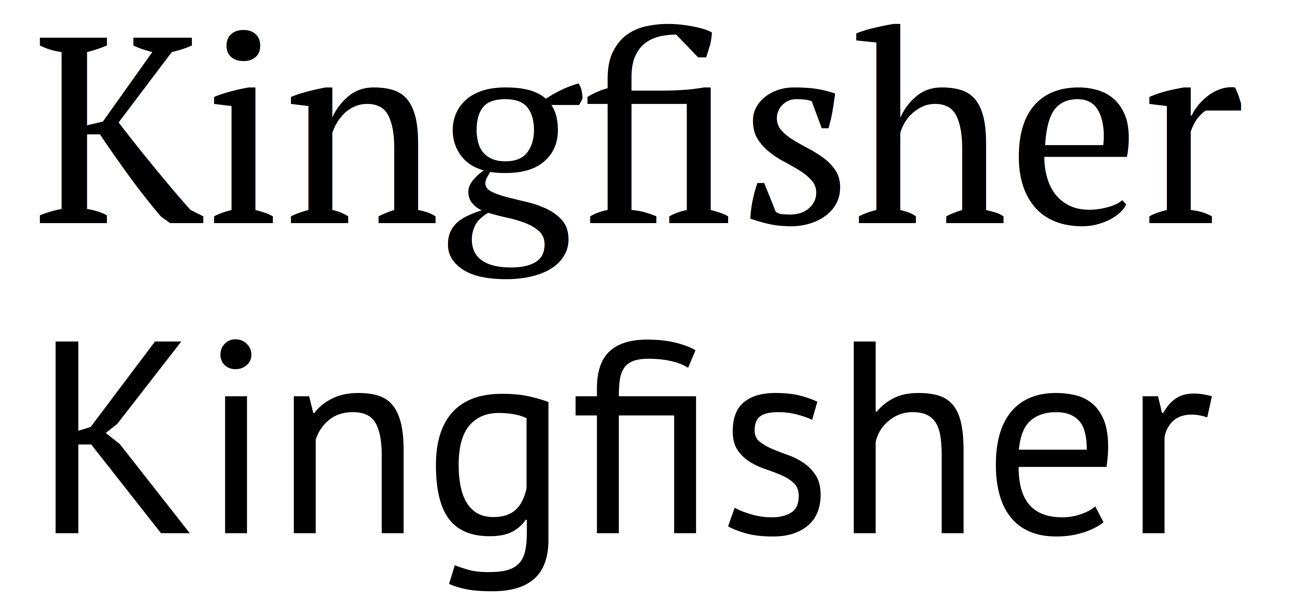 The same word typeset in PT Sans and PT Serif from the PT font superfamily.